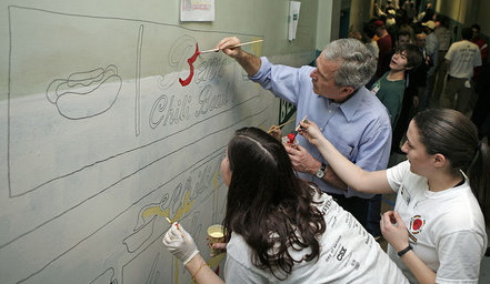 President George W. Bush lends a hand and his best brush strokes at Cardozo Senior High School in Washington, D.C., as volunteers spend Martin Luther King, Jr. Day painting murals of historical figures and local landmarks like the front of "Ben’s Chili Bowl".